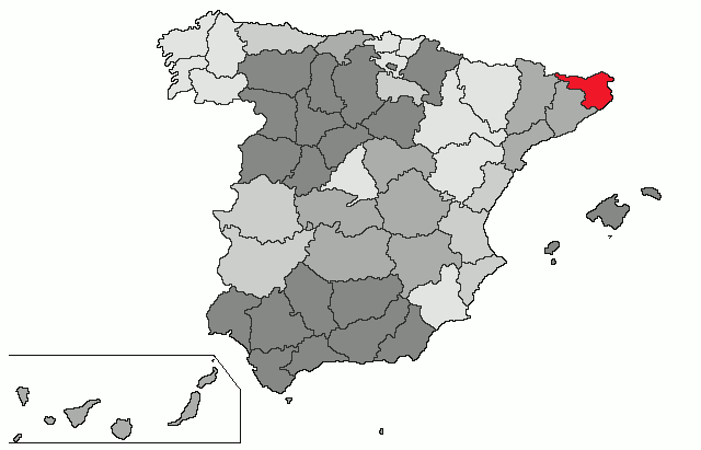 ES: Provincia de Gerona EN: Province of Girona Based in: Image:ProvPont.jpg Source: Designed by Leoplus. Original picture, designed by Sobreira.